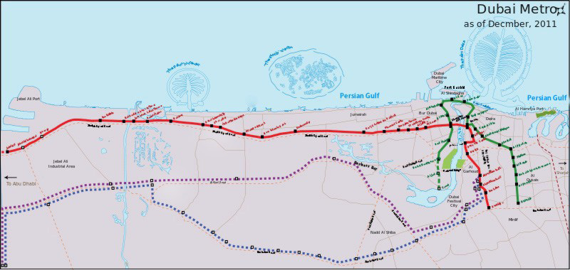 Dubai Metro map with stations for the Red and Green lines (Blue and Purple lines are still being planned)